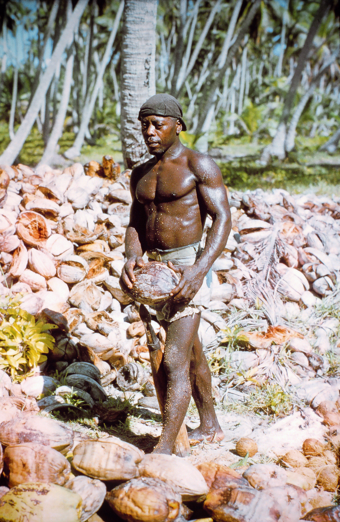 An unnamed Diego Garcian at the time of the US encampment, 1971. Location: Chagos, Diego Garcia Island (Image ID: geod0341, Geodesy Collection)